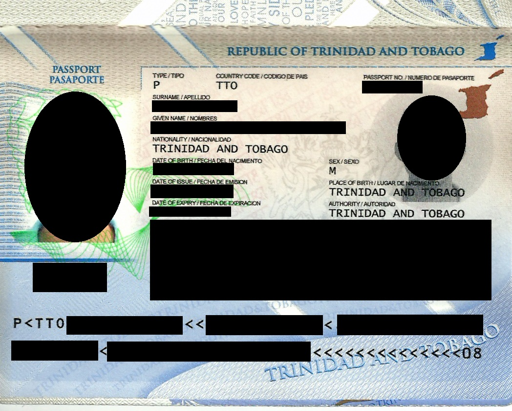 Trinidad and Tobago passport information page